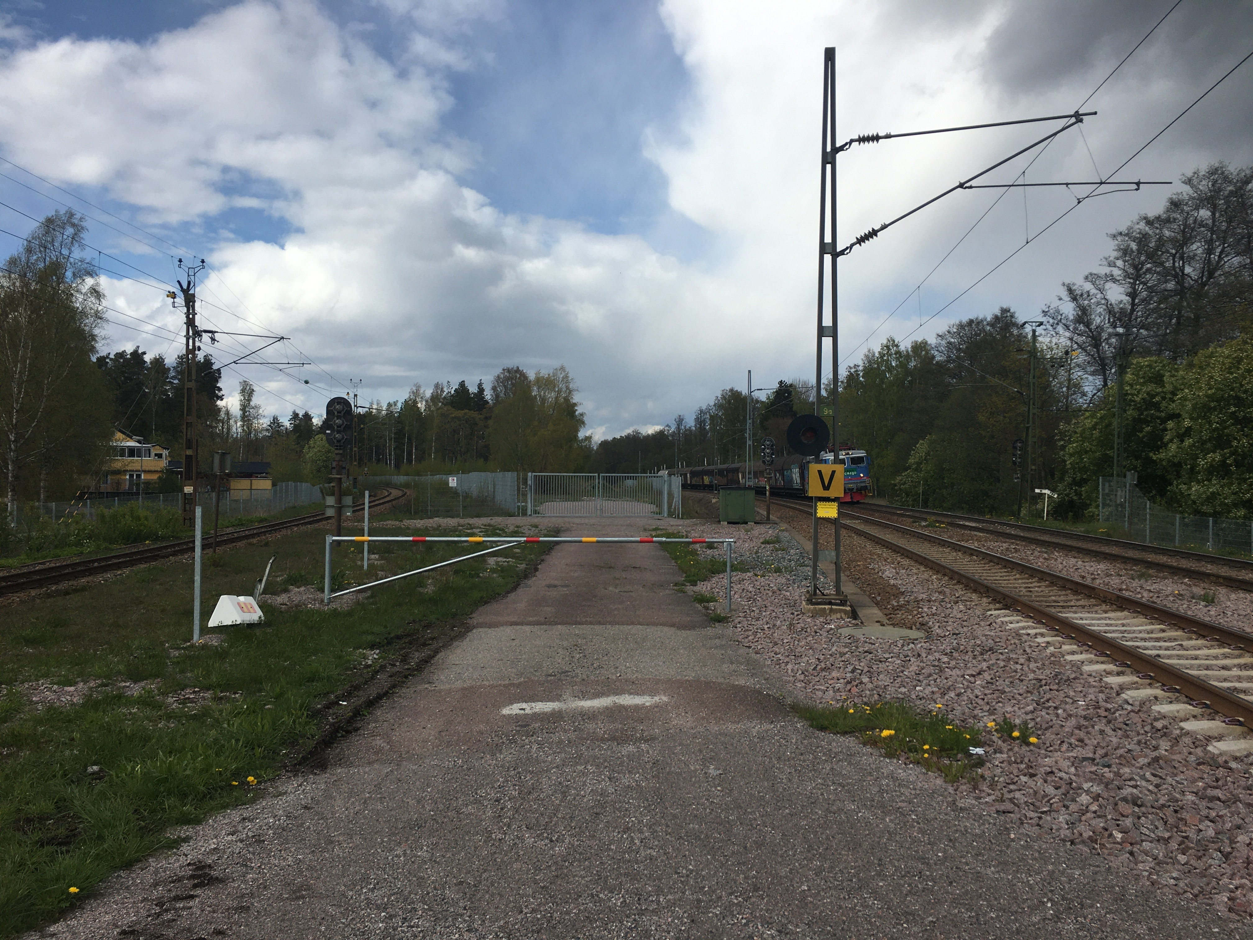 Railway crossing between the Strömsbro and Stigslund neighborhoods in Gävle Municipality, Sweden, where the railway lines Northern Main Line and the East Coast Line goes apart.